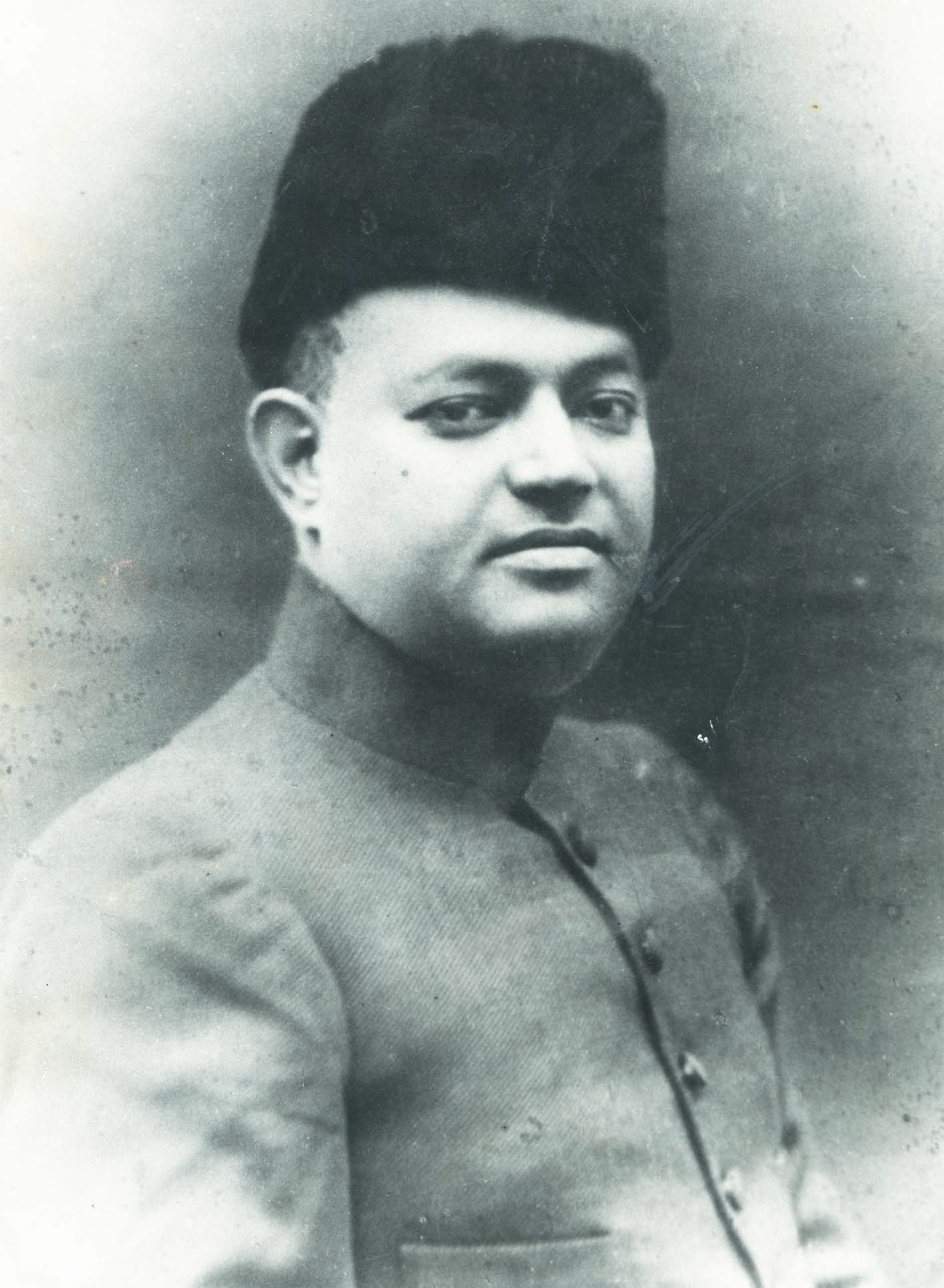 Aziz Ahmed, from personal collection